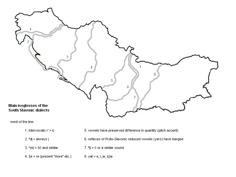 Main isoglosses of the South Slavonic dialects